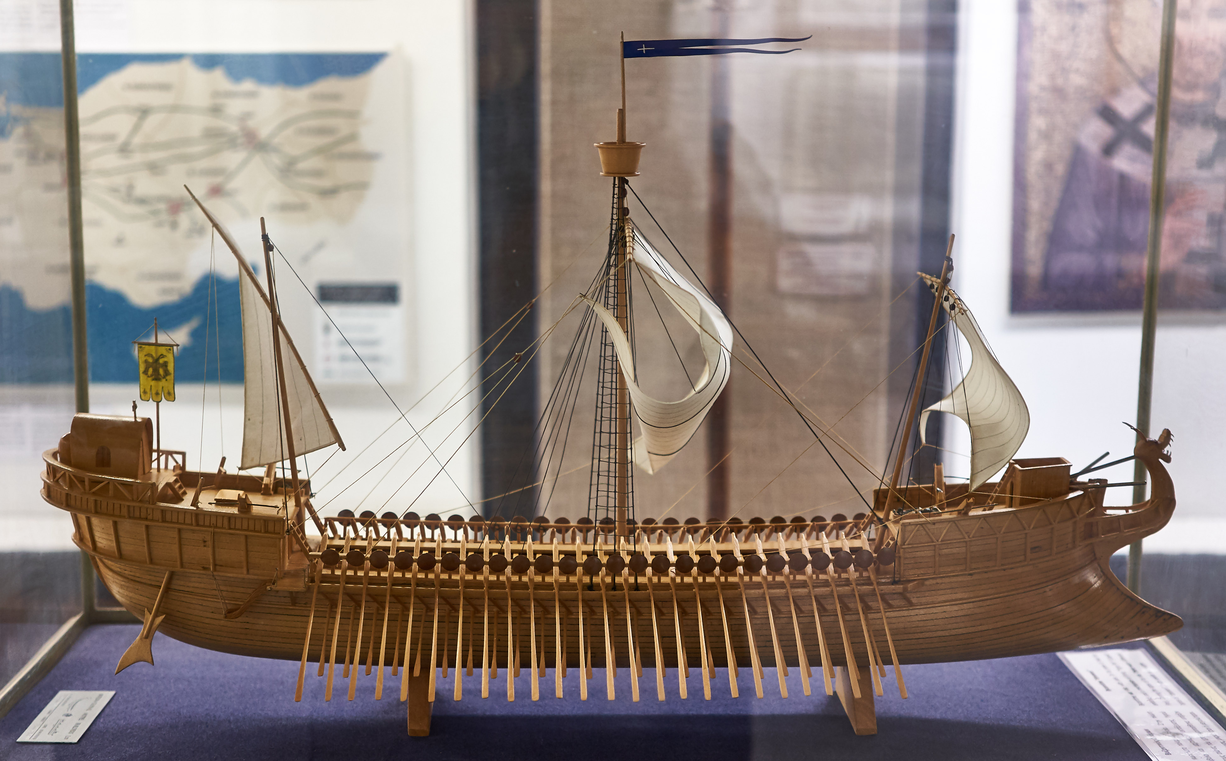 Byzantine "dromon" Byzantine warship with oars. In its prow, it had an embolus and a mechanism of firing "Ygro Pir" (Liquid Fire). During the ages of its use, there were different types of "dromon," both smaller and larger. Text: Museum inscription. Athens War Museum, Athens, Greece.